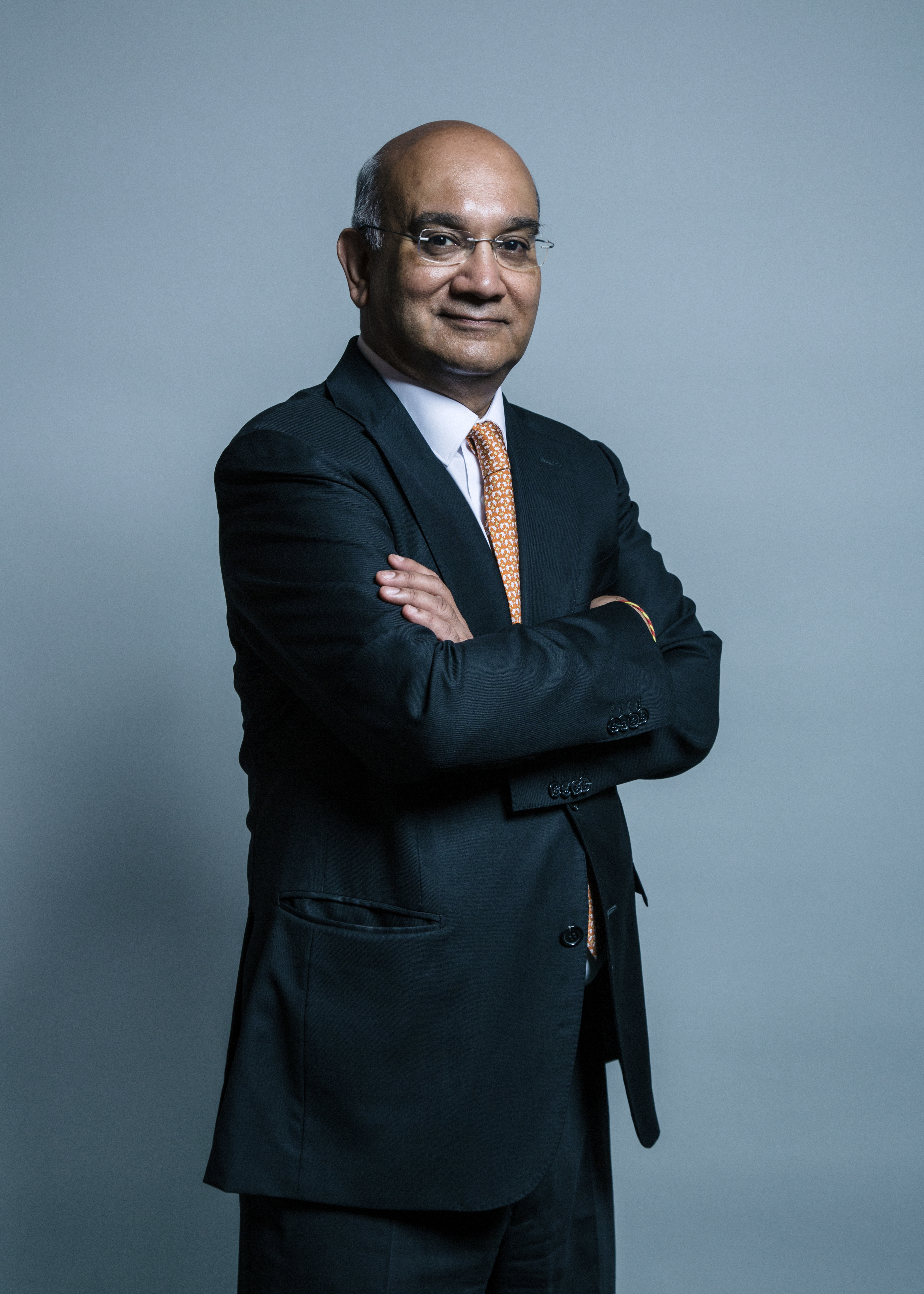 Official portrait of Keith Vaz